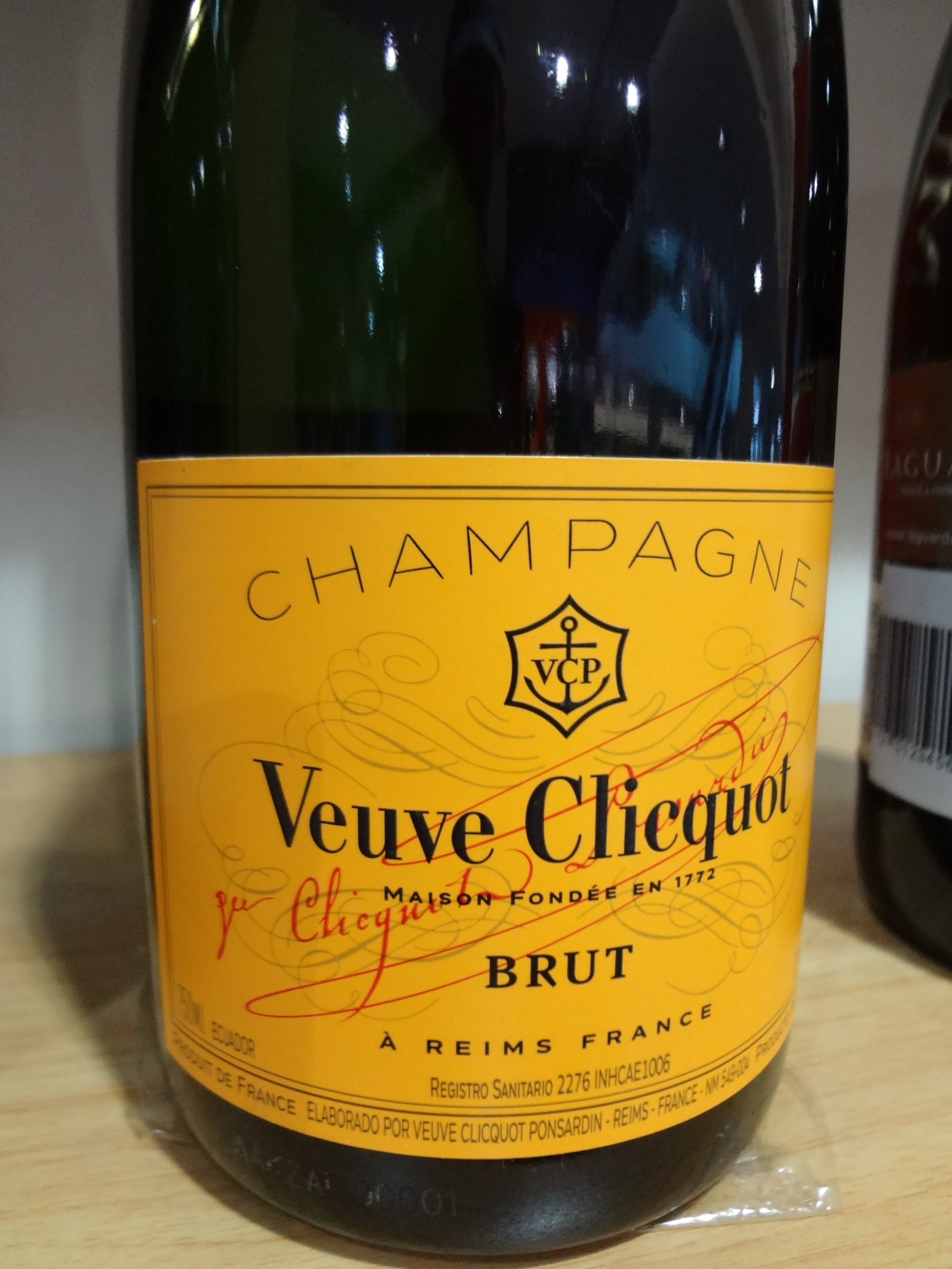 Veuve Clicquot Ponsardin Historic Center of Quito UNESCO World Cultural Heritage Site Centro Histórico de Quito Photography by David Adam Kess